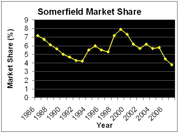 Graph of Somerfield Market share 1986-2007. Created by me using data from ultimately from EuroFood magazine.